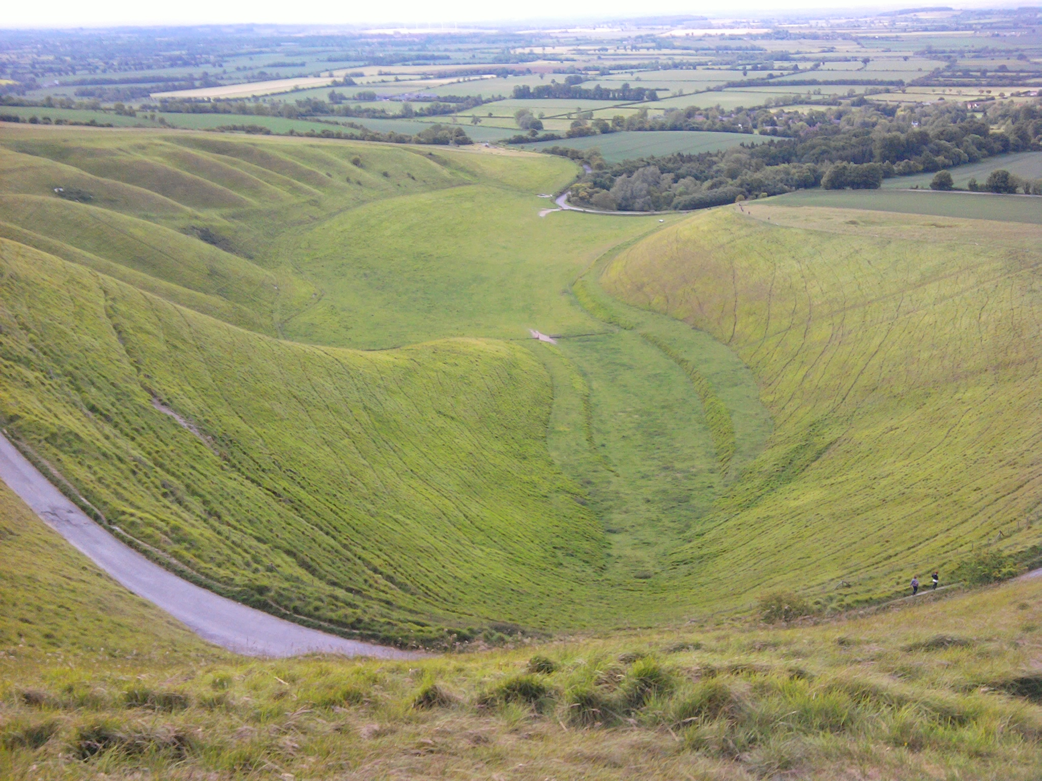 A picture of The Manger taken from the Uffington White Horse